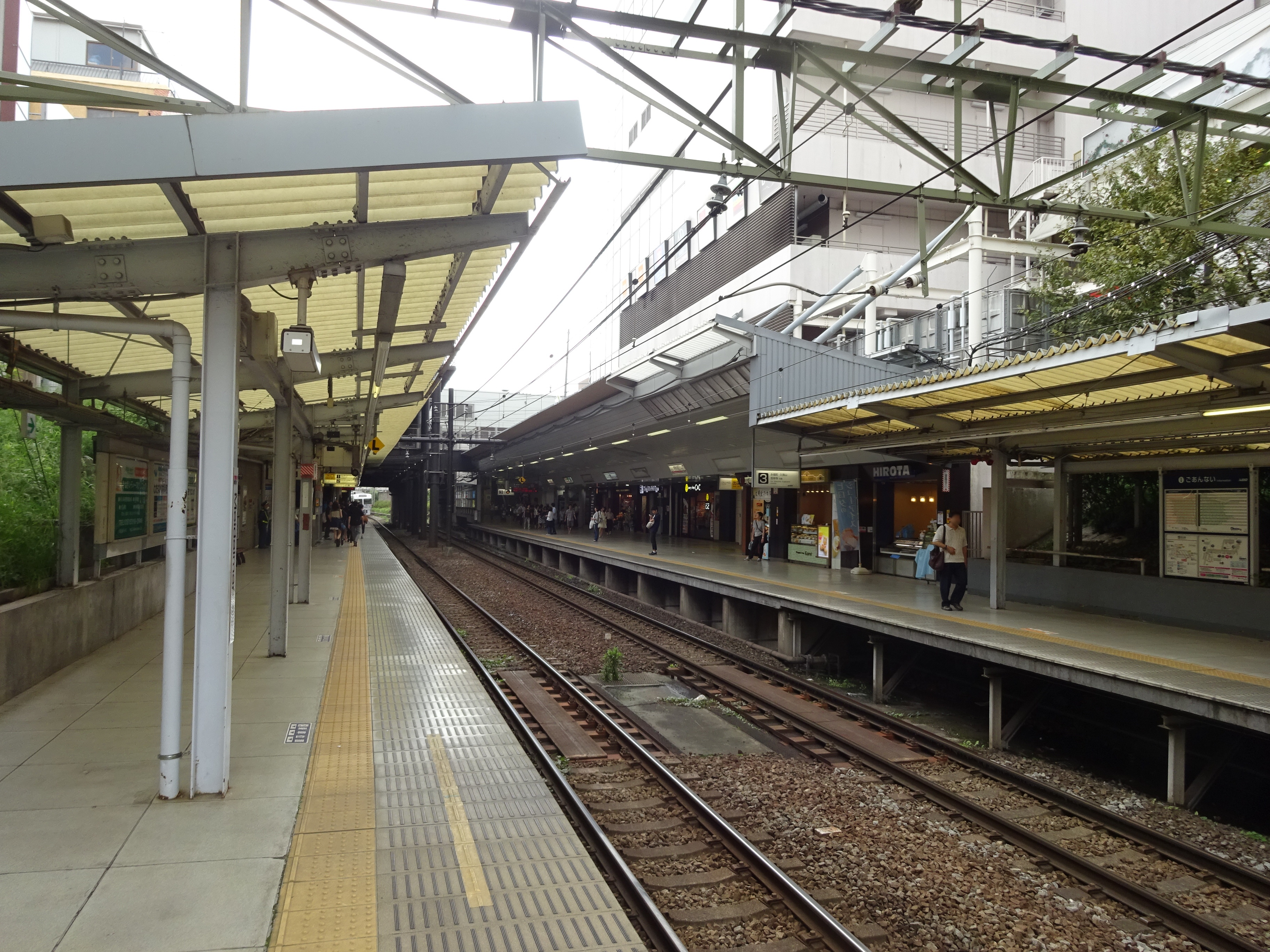 Platforms of Meidaimae Station (Inokashira Line)